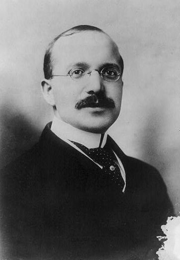 Otto Godfrey Foelker (1875 - 1943), a U.S. Representative from New York